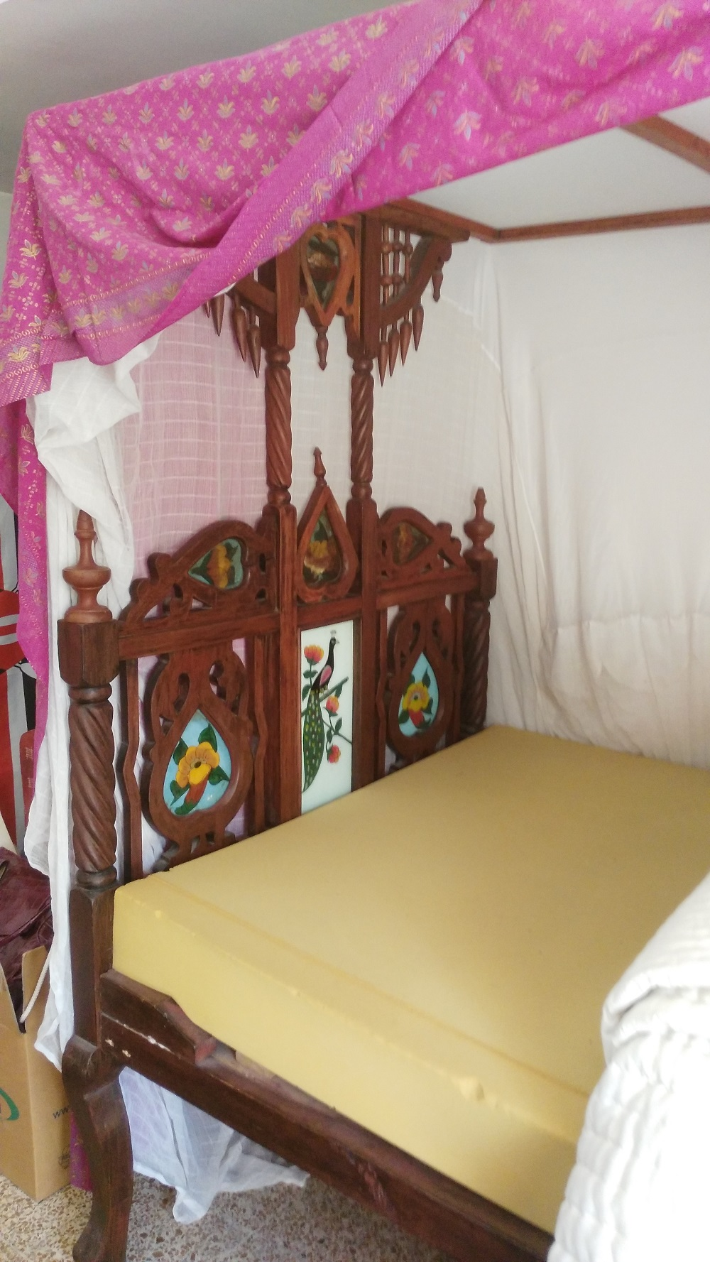 Swahili bed from Kenya coast Kiswahili: Kitanda cha Wawahili kutoka pwani la Kenya